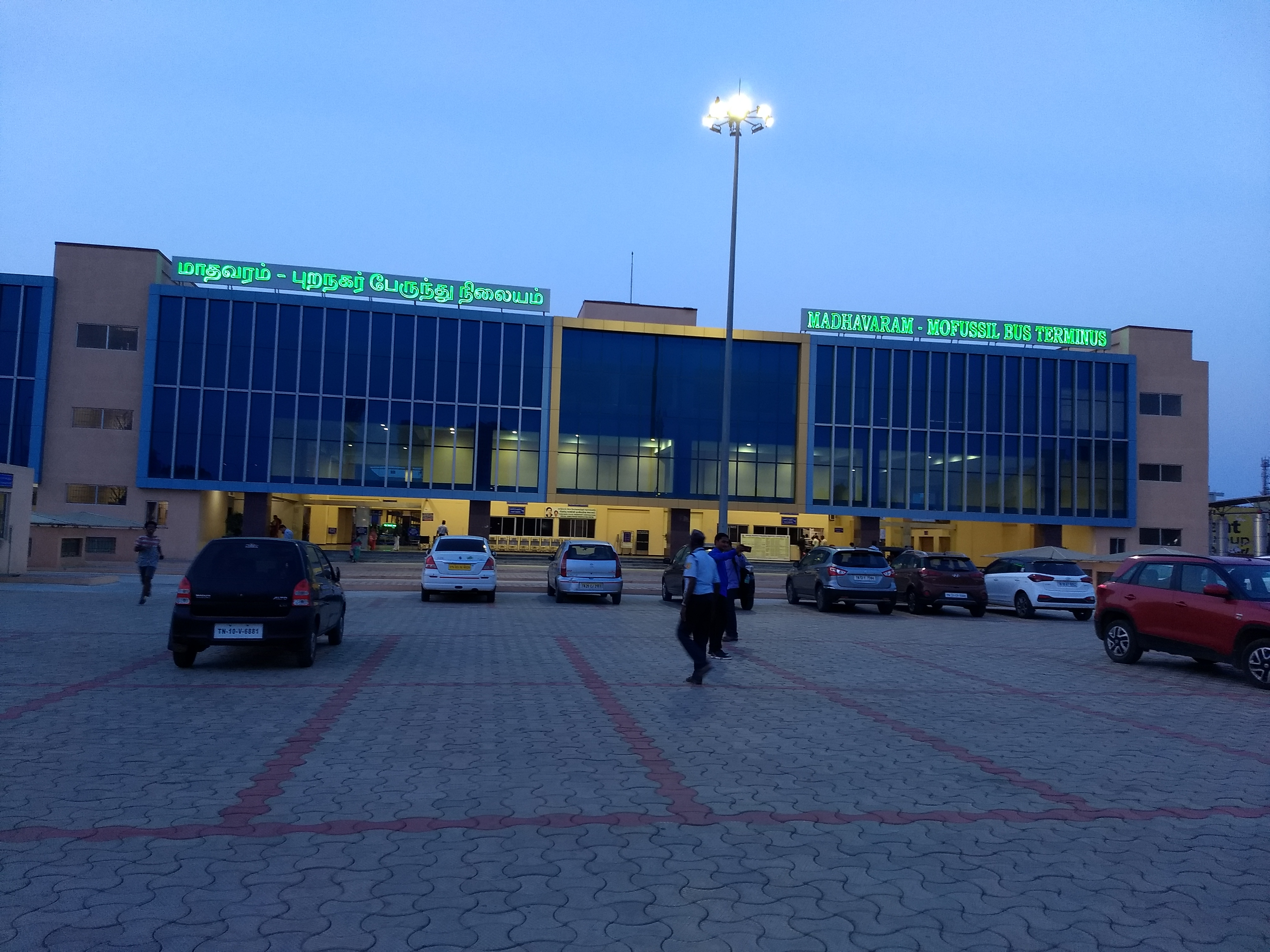 Madhavaram bus terminus serving interstate bus services of APSRTC and Setc to AndhraPradesh state from Chennai. MMBT.